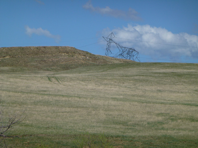 A transmission tower crumpled by an EF2 tornado northeast of Wall, South Dakota